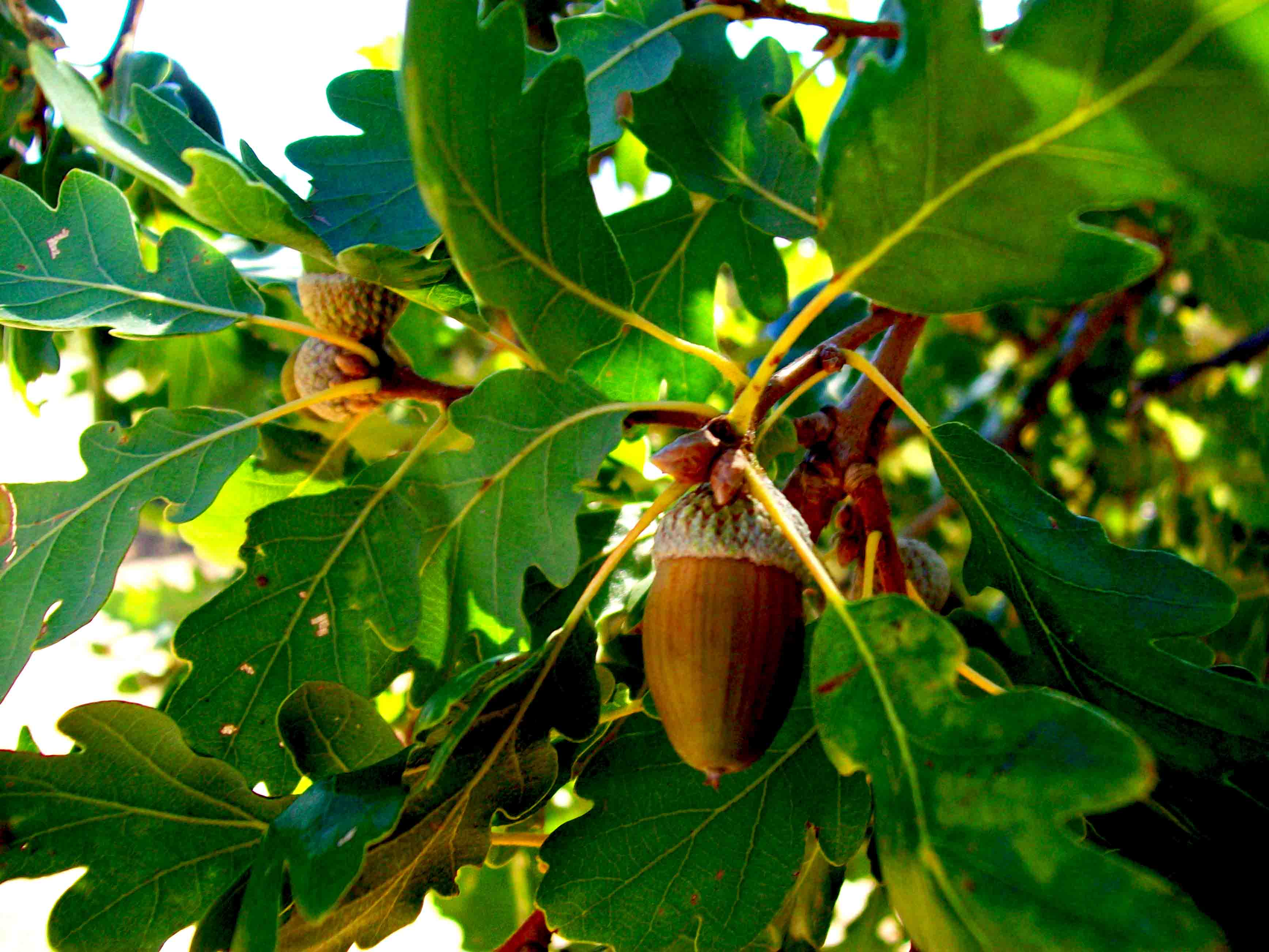 Many oak trees on the top of Vodno Mountain